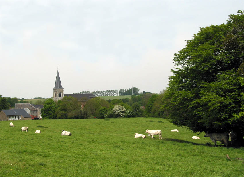 Gesves (Belgium), pastoral scene.